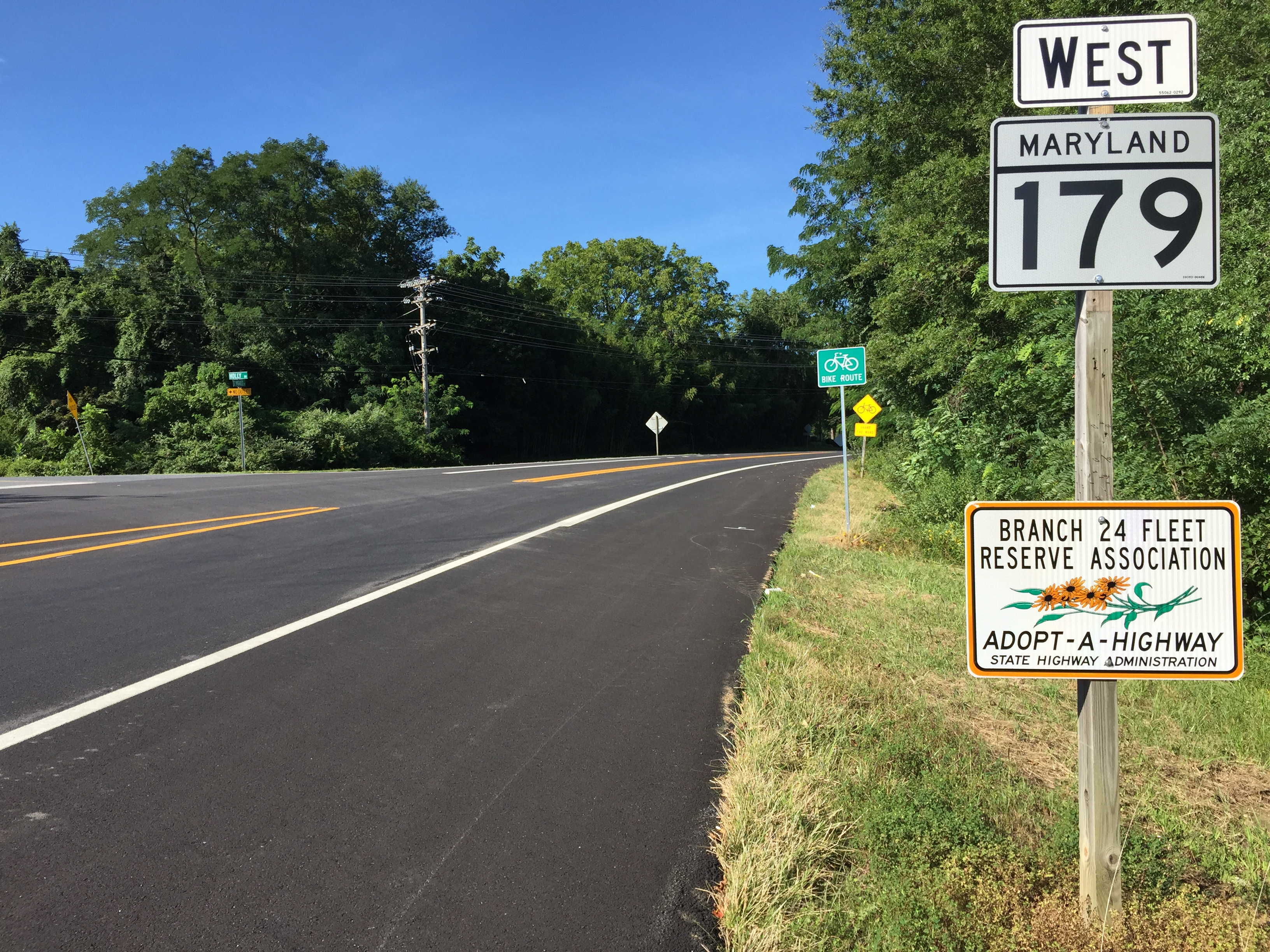 View west along Maryland State Route 179 (Saint Margarets Road) at Holly Drive in Saint Margarets, Anne Arundel County, Maryland